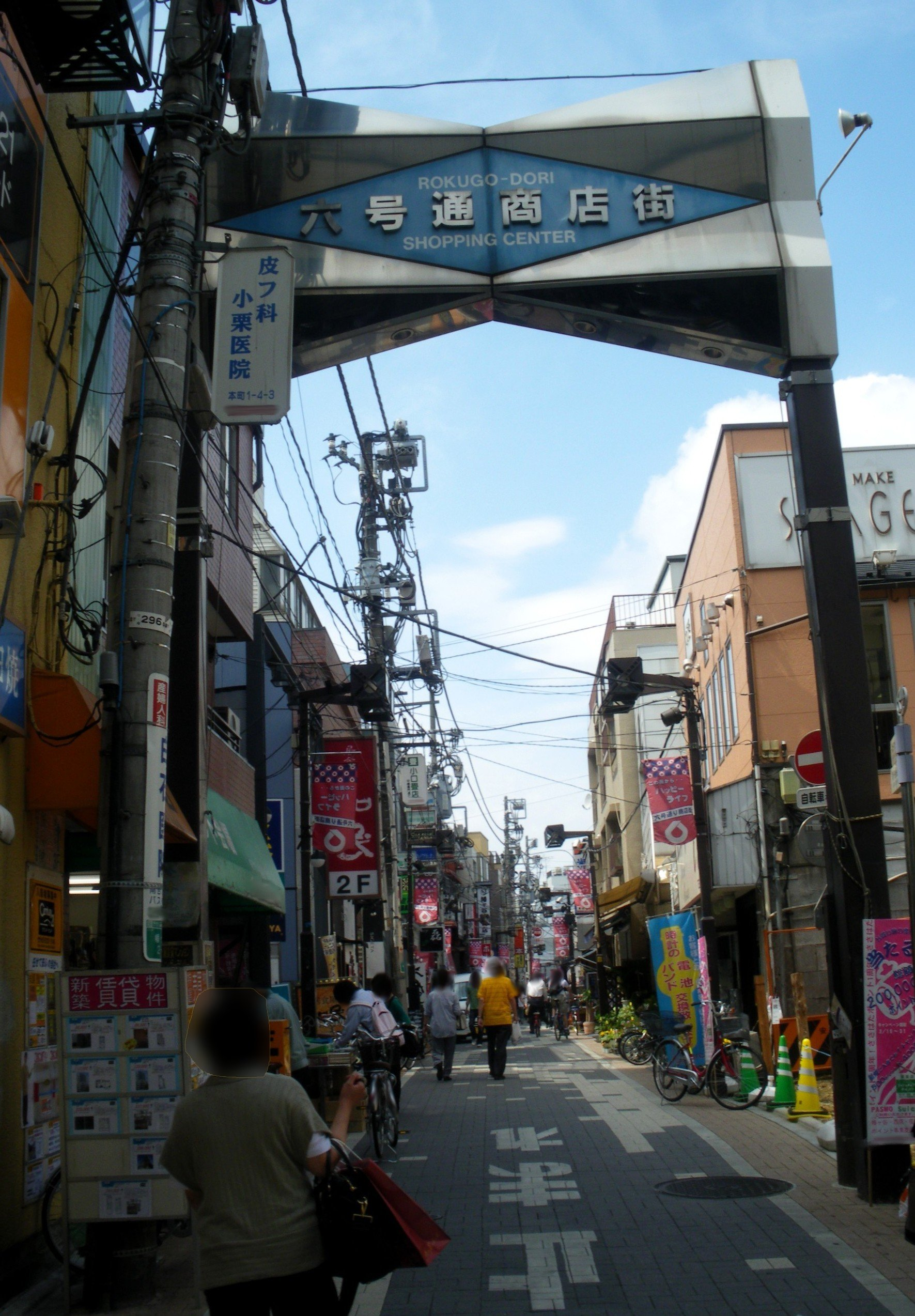 6go dori shopping center (Hatagaya,Shibuya,Tokyo)